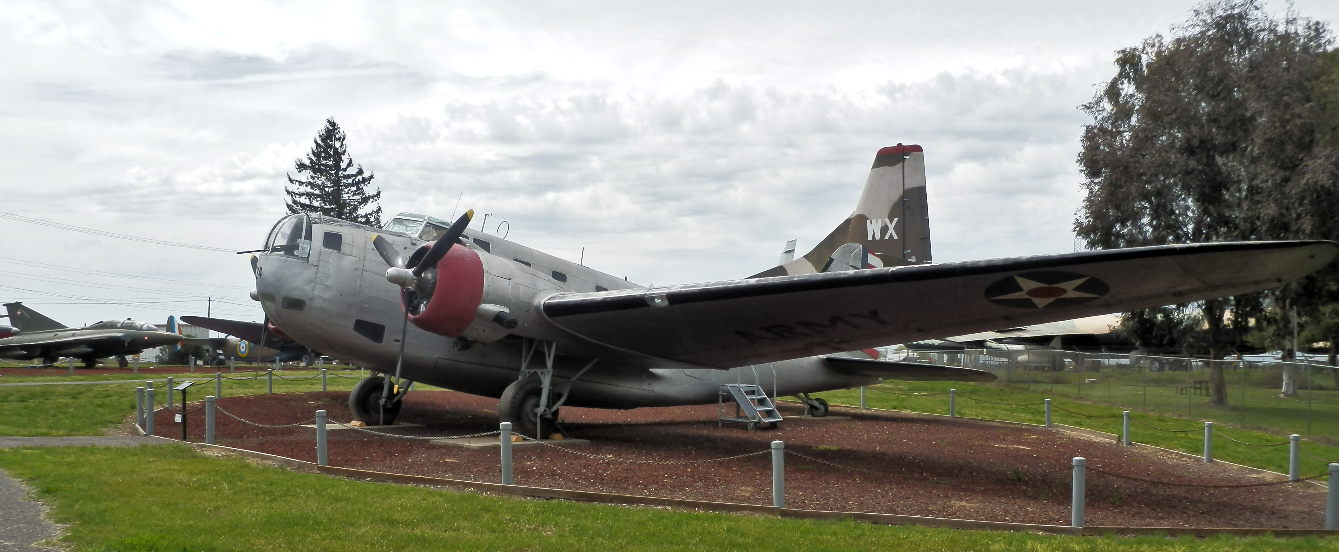 Douglas B-18 Bolo at Castle Air Museum Atwater